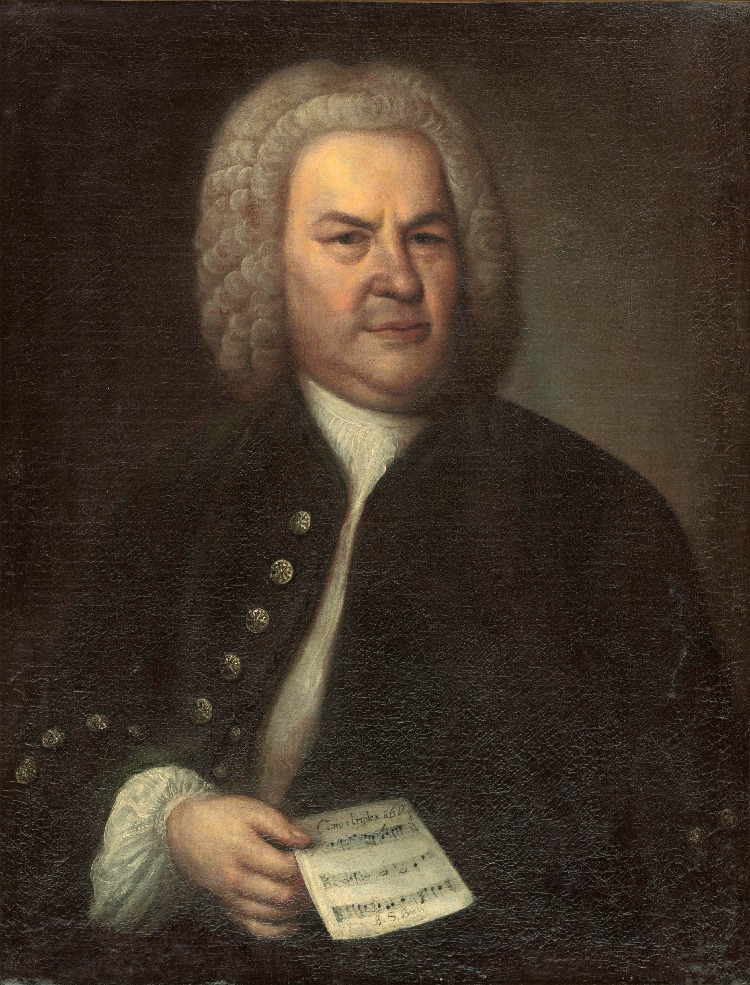 Johann Sebastian Bach in 1746, with riddle canon